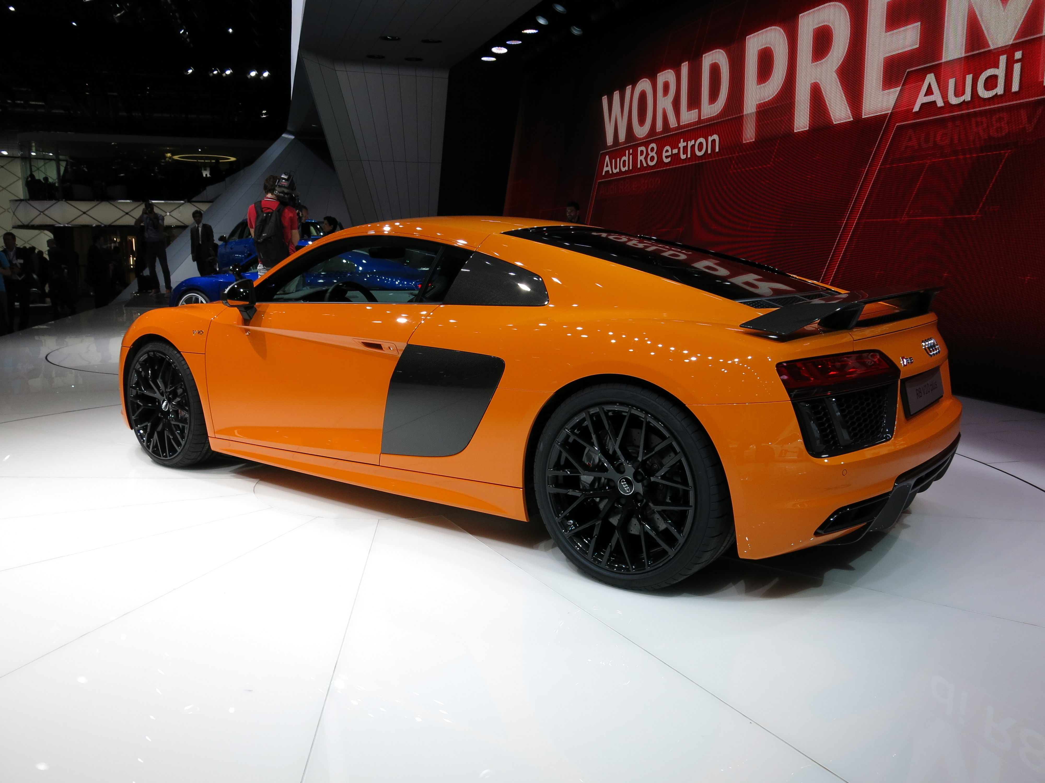 Geneva Motor Show 2015 (photo taken on the first press day)